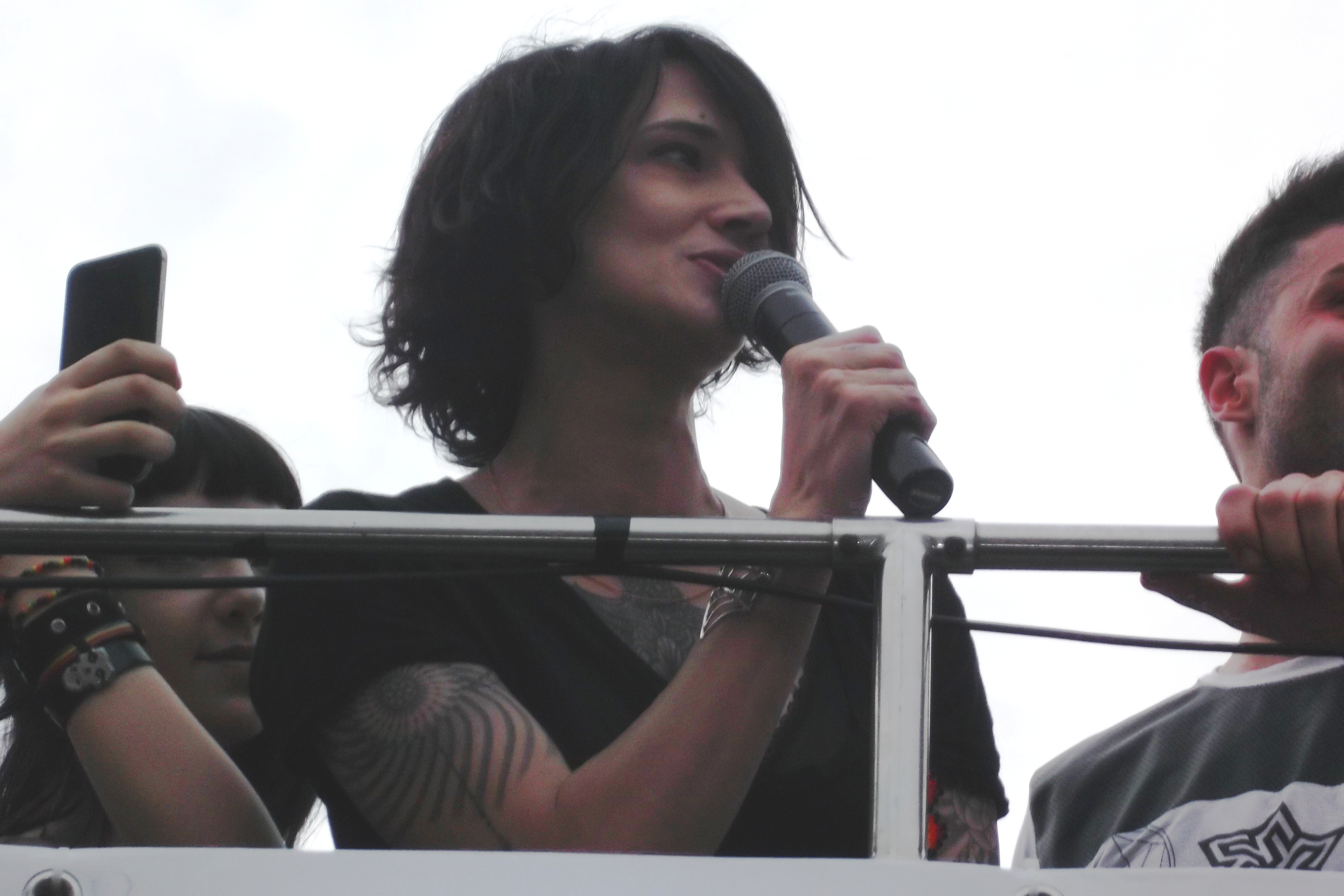 Italian actress Asia Argento speaking at 2016 Rome Pride, LGBT even of which she was appointed patron